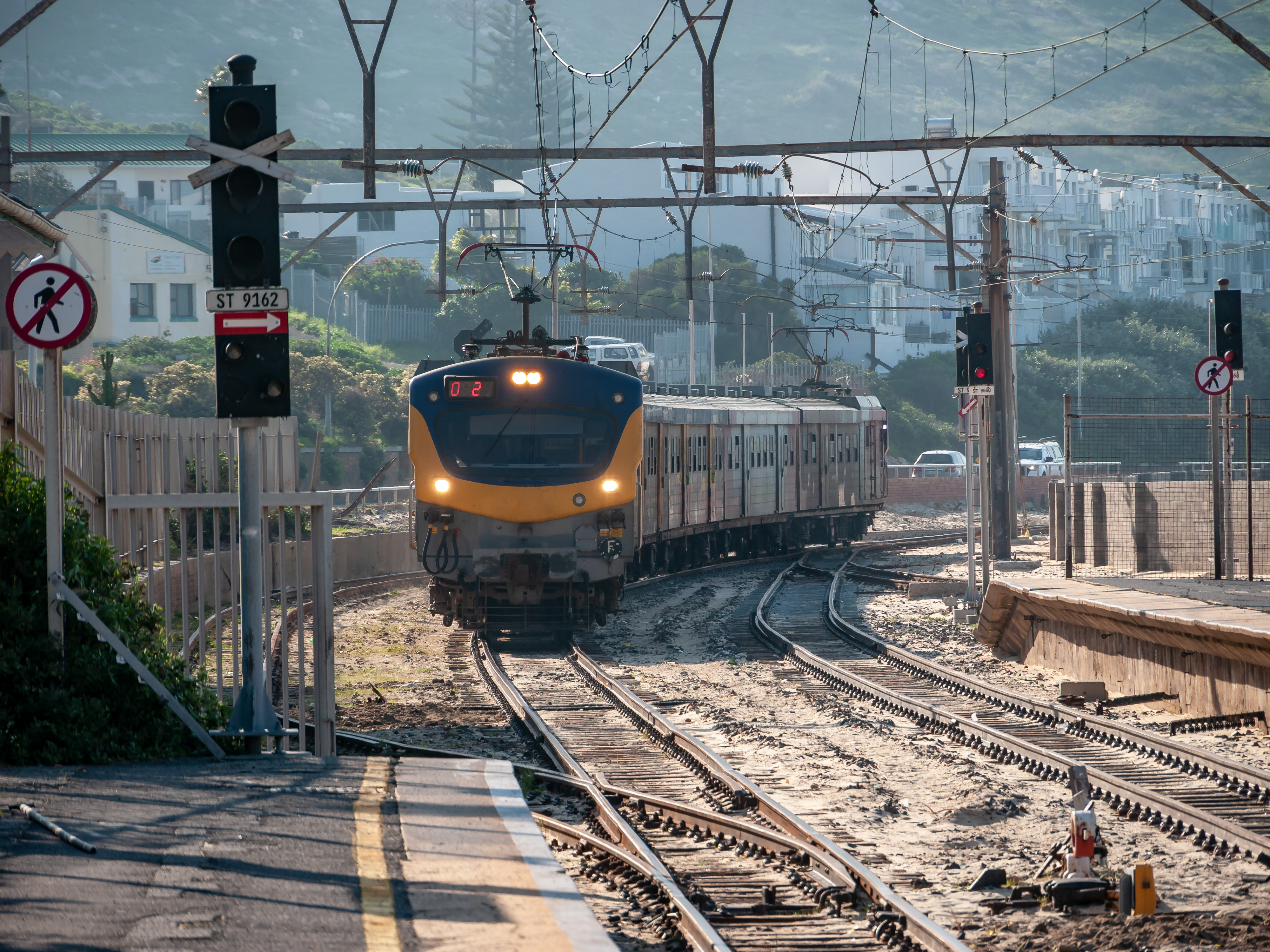 Metrorail train (train class 10M) entering Simons Town station, Capetown